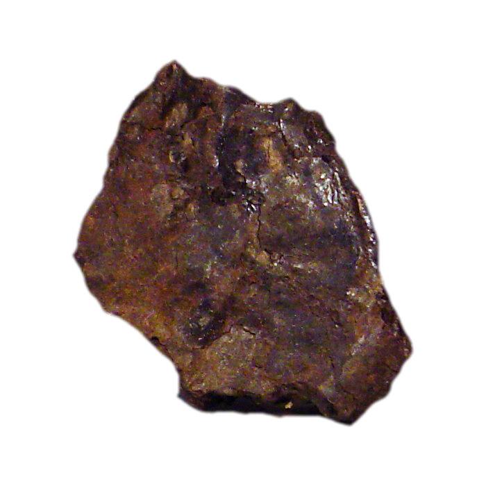 These mineral images are free to use how you wish.